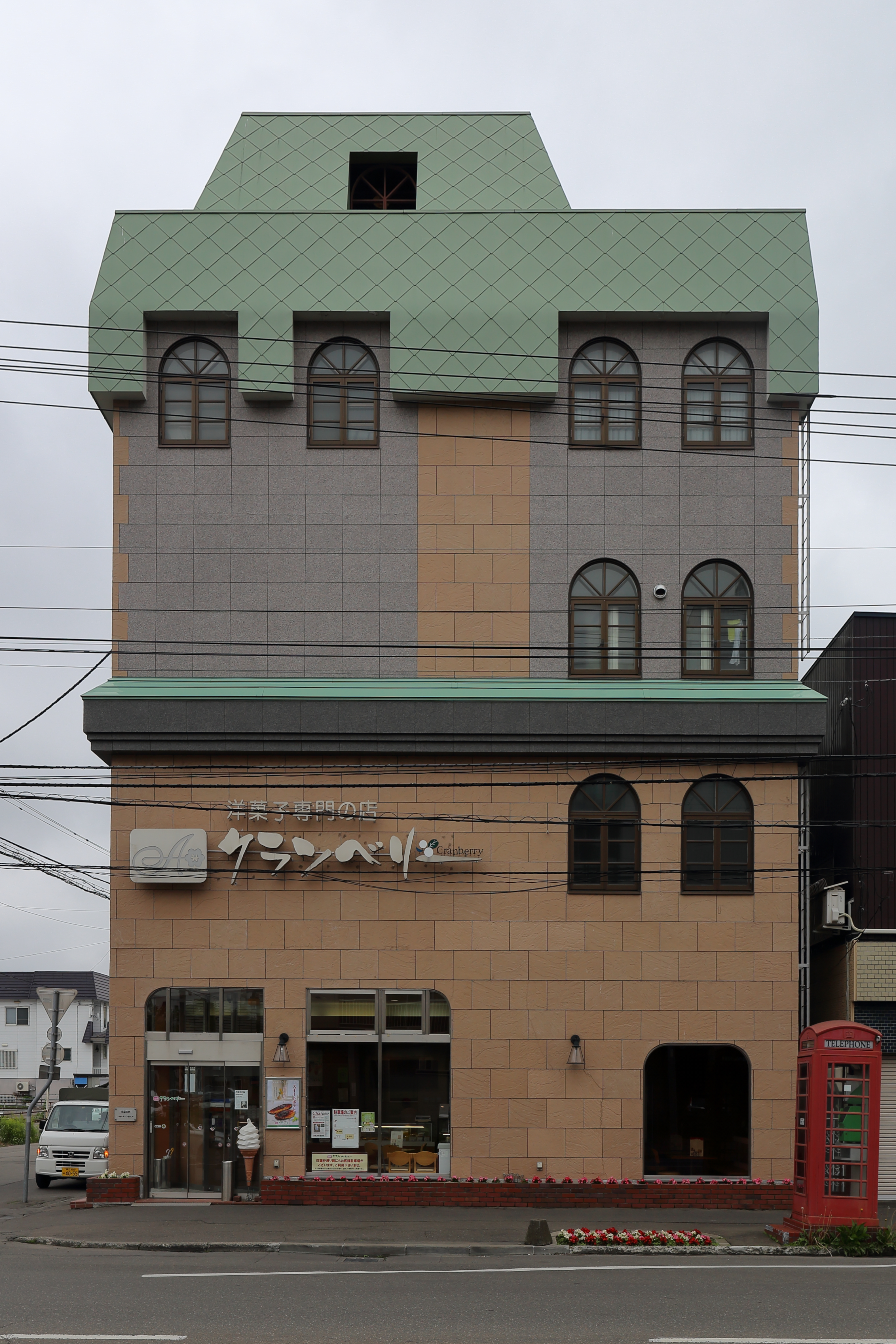 Confectionery Cranberry in Obihiro City, Hokkaido, Japan